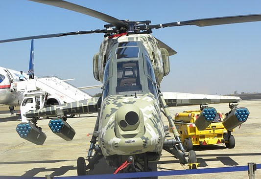 Aero India 2011,LCH TD-2 with Dessert digital camouflage displayed at Aero india 2011. LCH TD-2 is the first attack helicopter in the world to get a Digital Camouflage